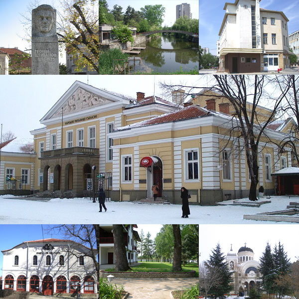 Yambol skyline